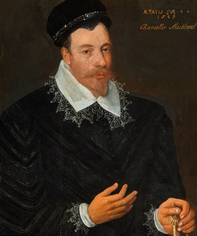 Portrait of Sir John Maitland, 1st Lord Maitland of Thirlestane, attributed to Adrian Vanson, 1589